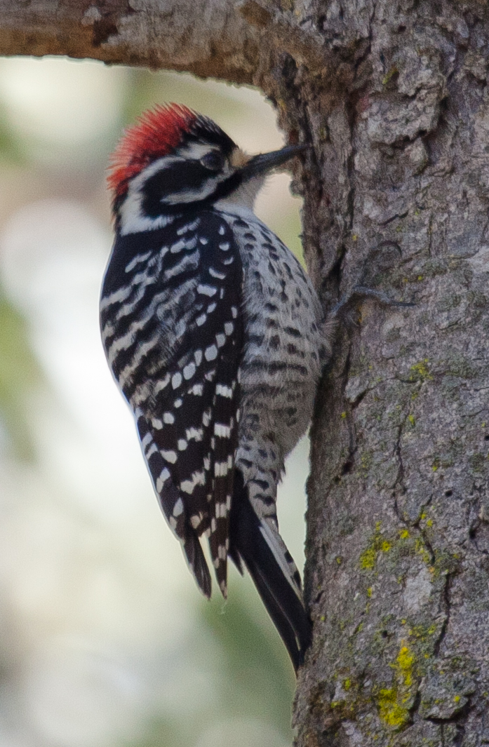 This Nuttall's Woodpecker, Picoides nuttallii, is a species of woodpecker named after naturalist Thomas Nuttall. Seen on the path to the beach just outside the The Monarch Grove at Pismo State Beach in the CA State Park Pismo Butterfly Preserve, Pismo, CA, 13 Feb. 2011